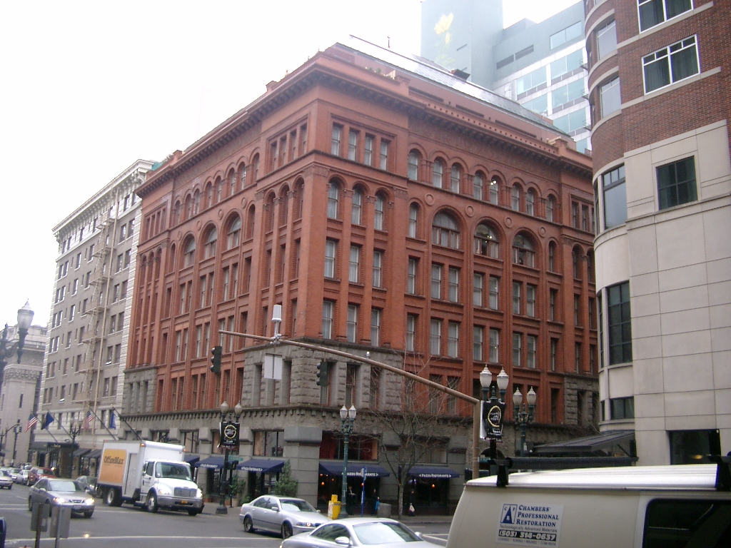 The Hotel Vintage Plaza, formerly the Imperial Hotel at 422-426 Southwest Broadway, Portland, Oregon, United States, is listed on the US National Register of Historic Places (NRHP) under the Imperial name. Photo is taken from the southwest, from across Broadway and Washington Street. NRHP reference number 85003037